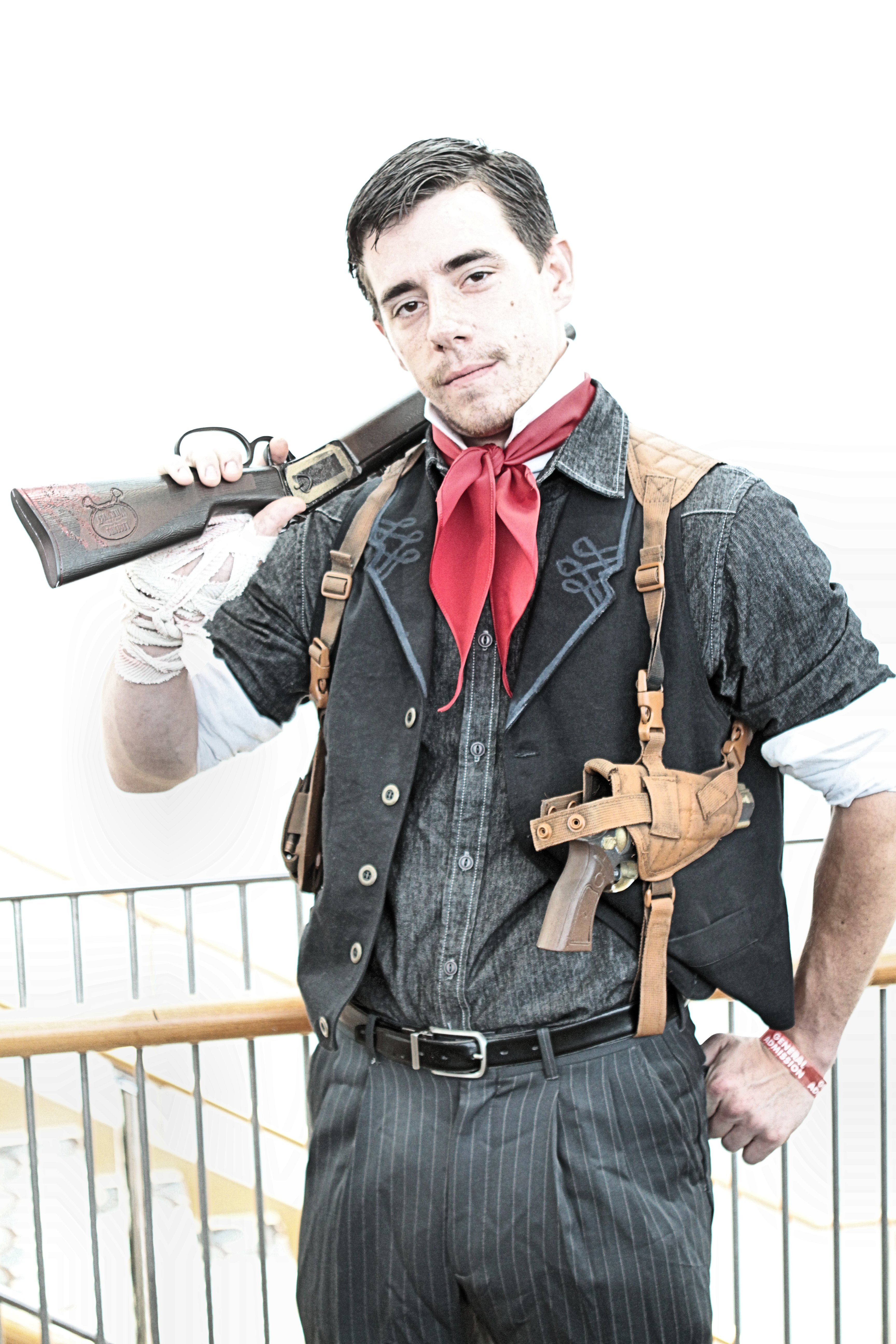 Cosplay at Long Beach Comic Expo 2014.